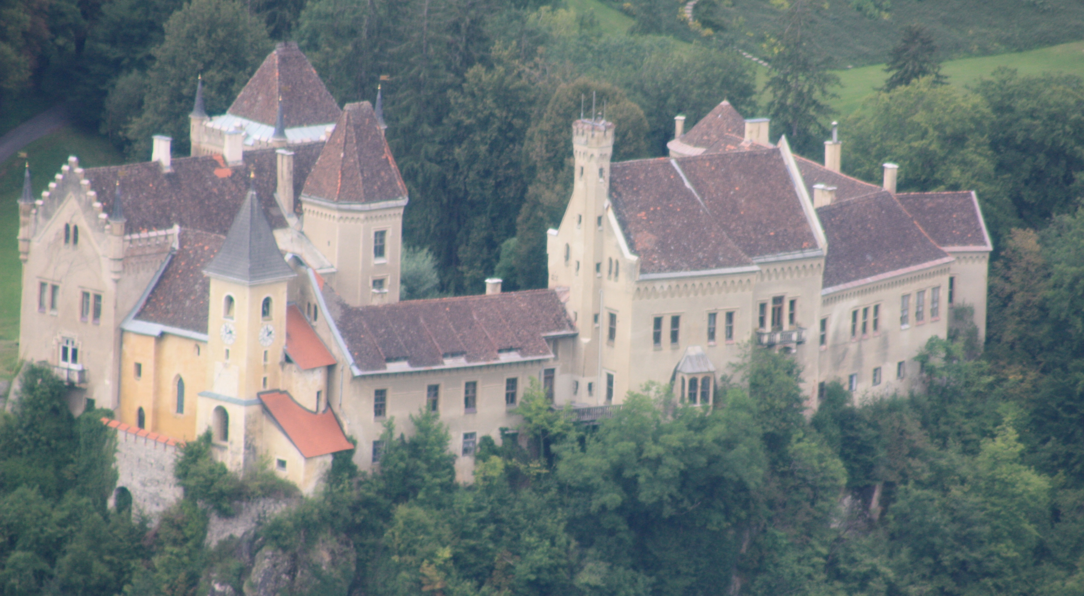 Eberstein castle Locality: Eberstein Community:Eberstein